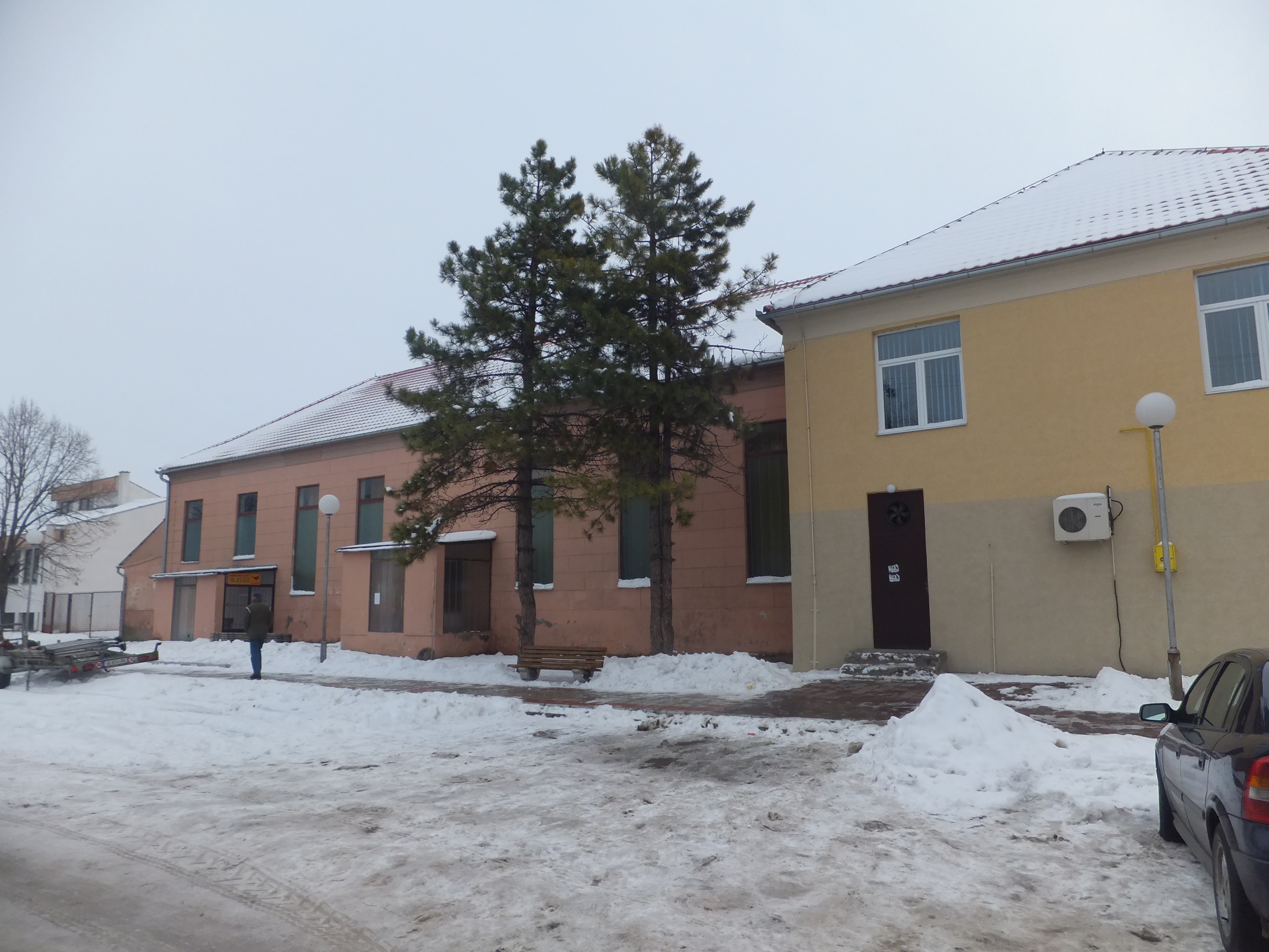 Center of Kraljevci